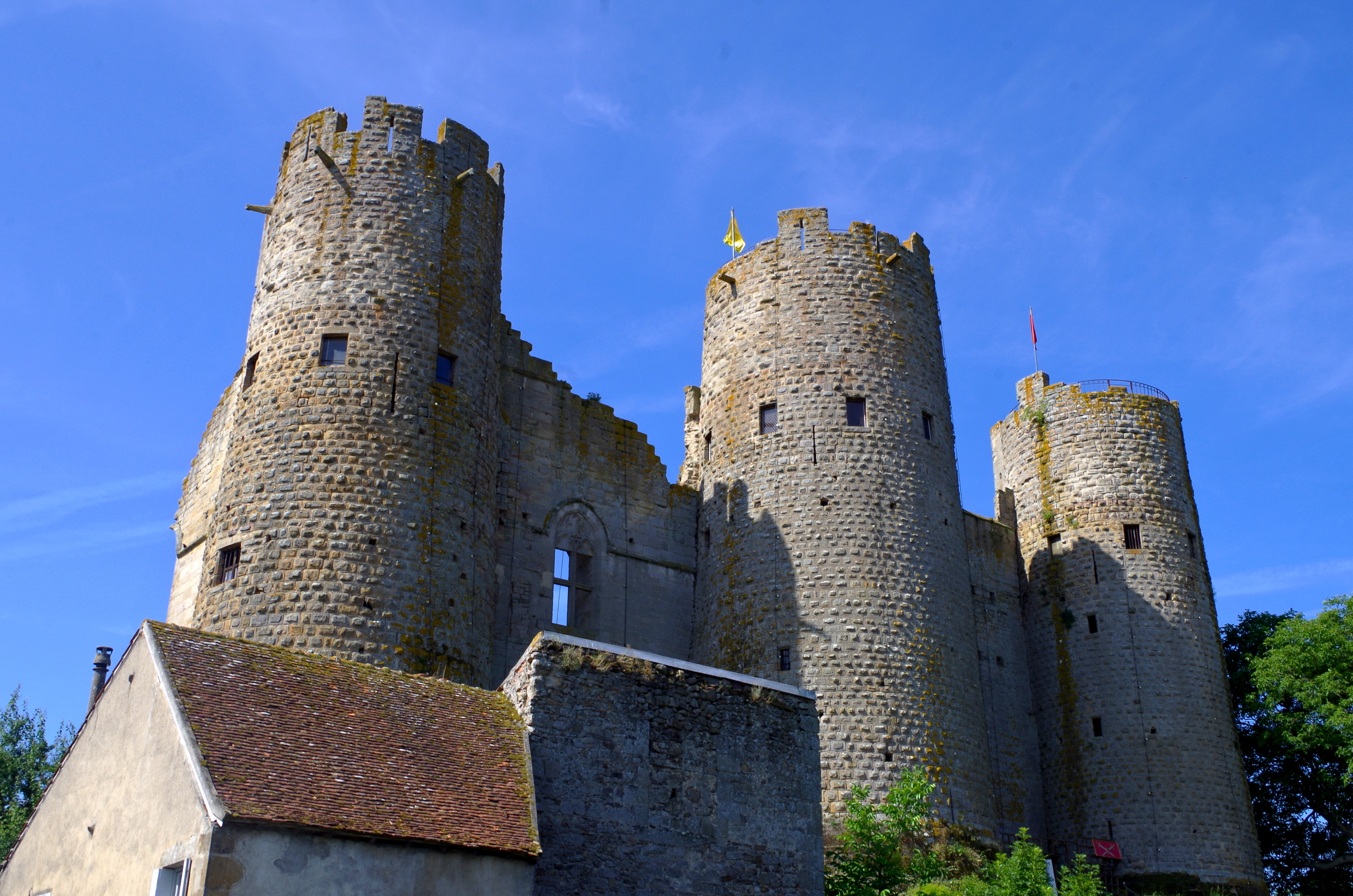 Bourbon l'Archambault fortress. The three towers